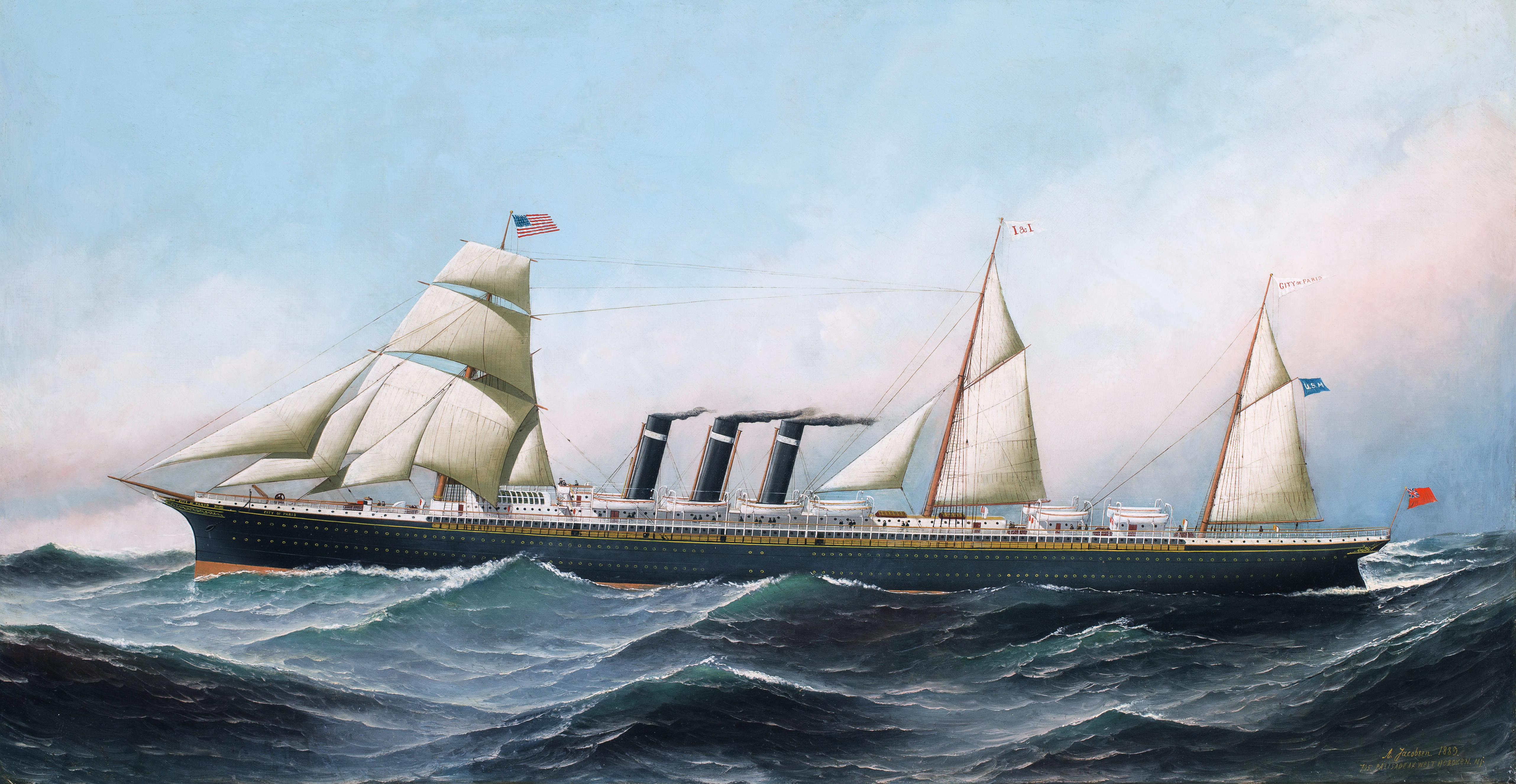 SS City of Paris oil on canvas 81.2 x 152.4 cm signed b.r.: A. Jacobsen. 1889 / 705 Palisade Av, West Hoboken. NY